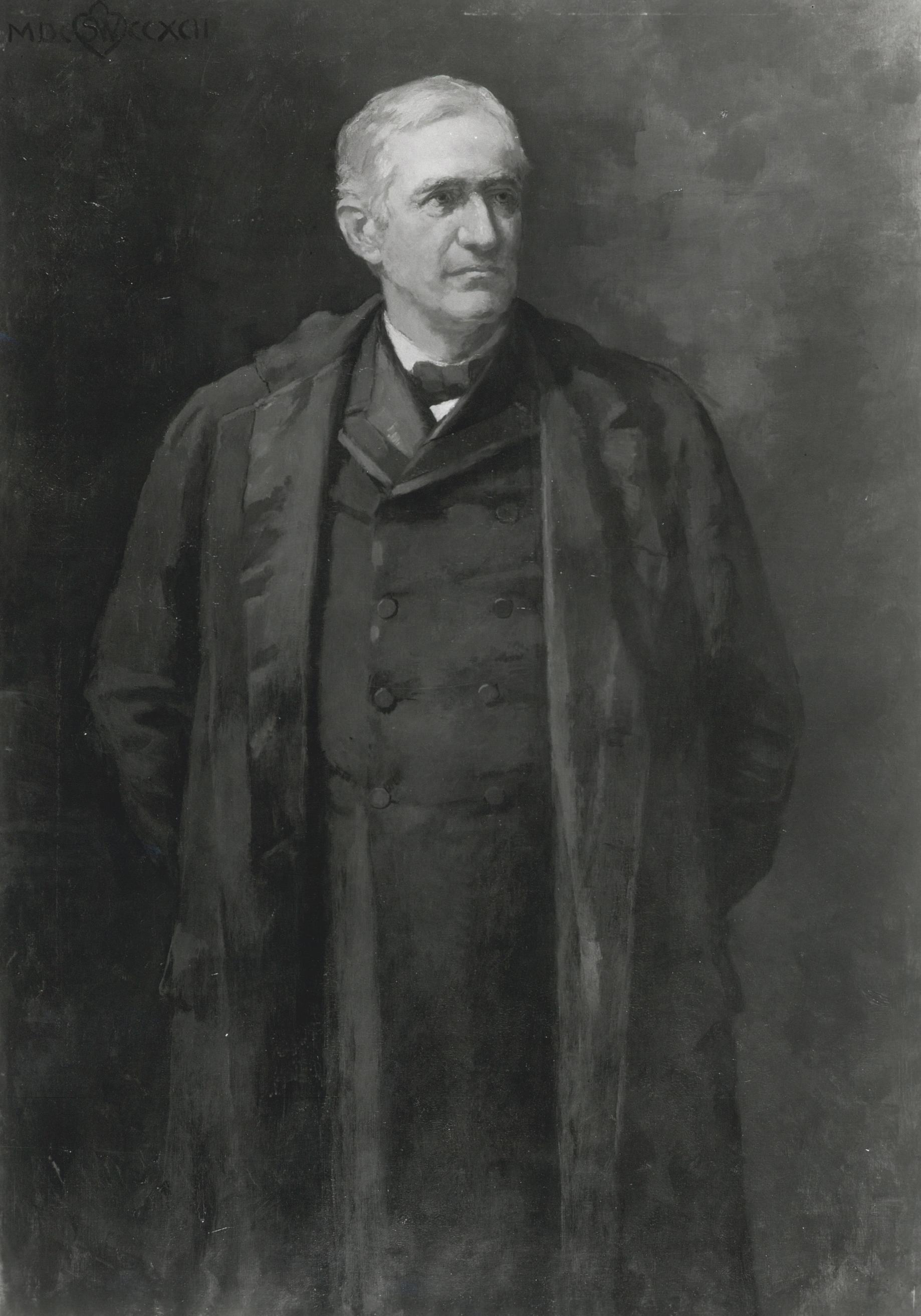 Thomas F. Bayard, U.S. Secretary of State, March 7, 1885 to March 6, 1889